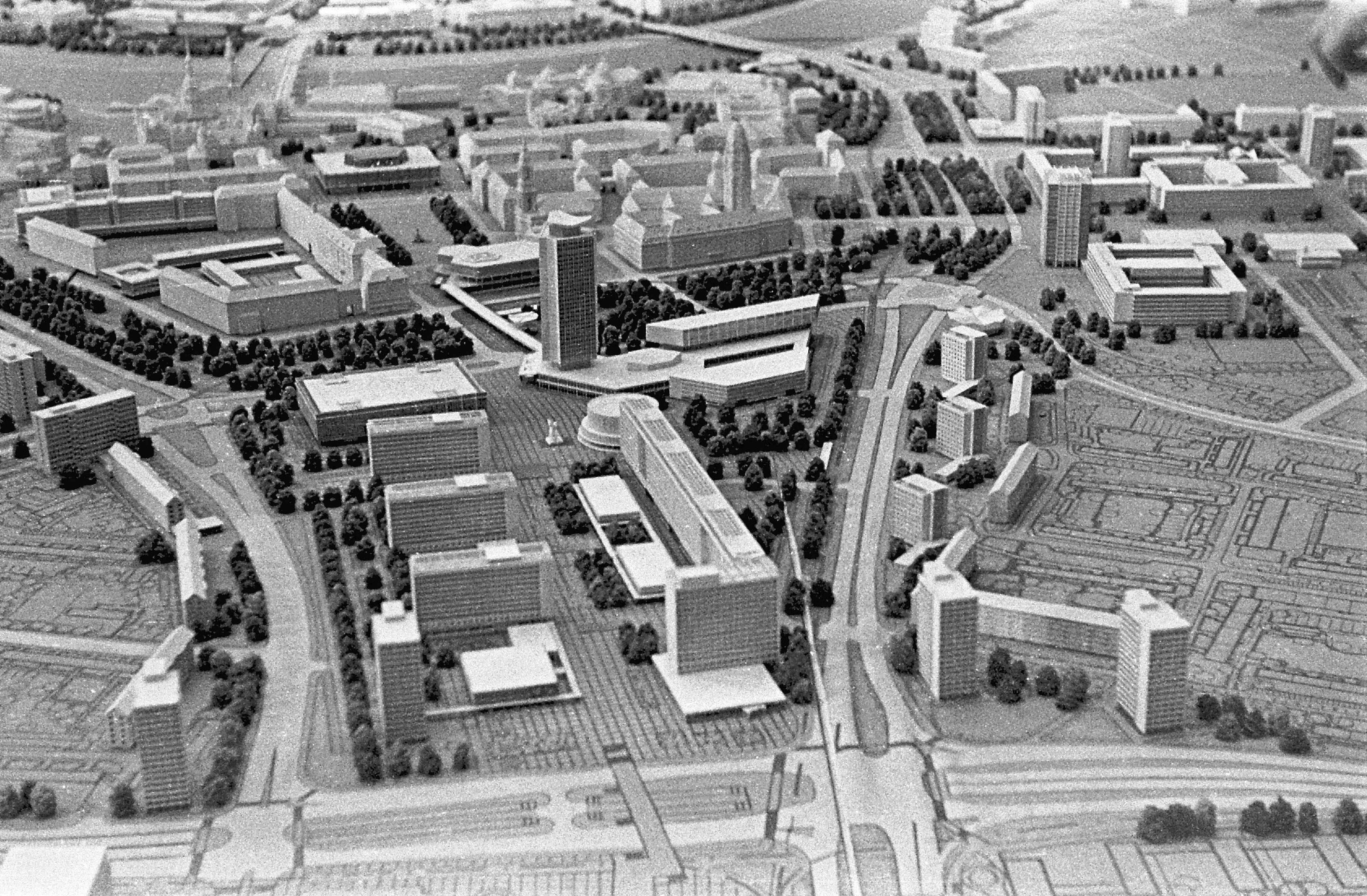 From an exhibition called "Architecture and Fine Arts" at the Old Museum in Berlin (1970): A post-war model of the proposed reconstruction of Dresden, viewed from Central Station to Prague Street. Front center: Hotel Neva; then the "Prague Zeile"; behind it the round cinema. After that, the high-rise building at Ferdinandplatz, which was never been built. Behind is the Old Market with Cross Church and Palace of Culture. On the right, the town hall tower. Centre front is the self-service restaurant "Bastei " with its ceramic wall picture "Dresden greets its guests." Behind this are the 3 hotel discs Bastei, Königstein and Lilienstein. Behind them, the Centrum (downtown) department store.